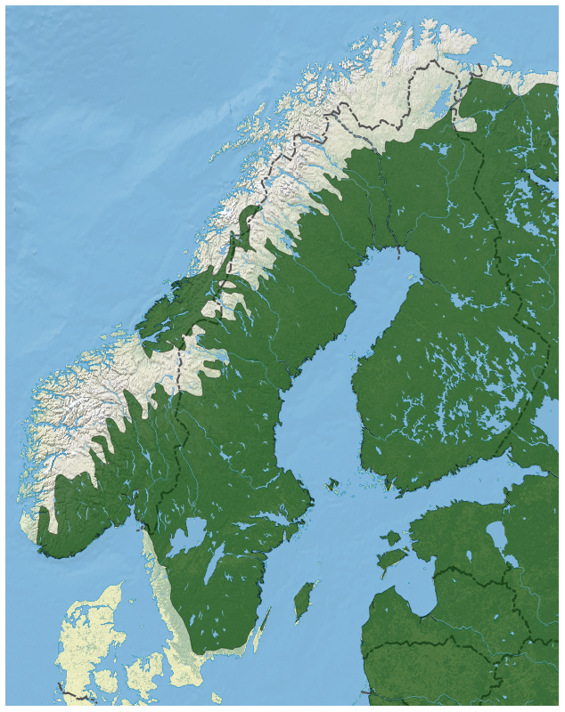 Geographical distribution of the Norway Spruce Picea abies in Scandinavia. The map was created using the QGIS, a Free and Open Source Geographic Information System, version 2.12.3-Lyon.